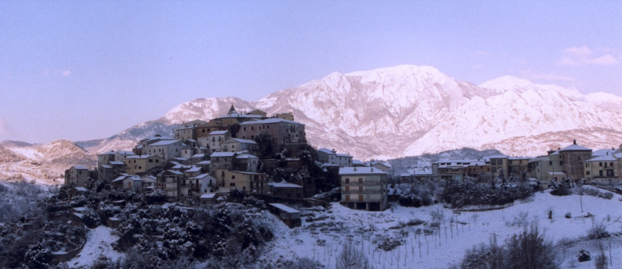 Colli a Volturno (Isernia) - Panorama.